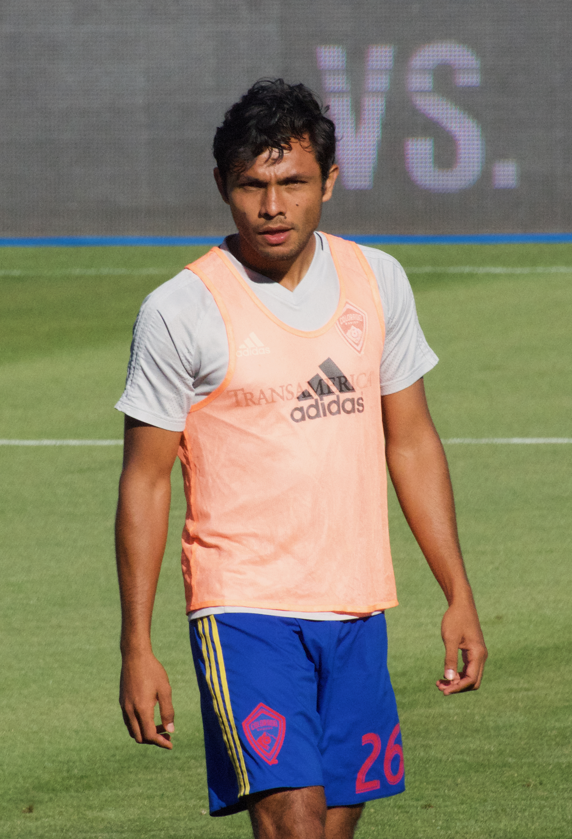 Dennis Castillo of Colorado Rapids warms up at halftime. Avaya Stadium, 29 July 2017